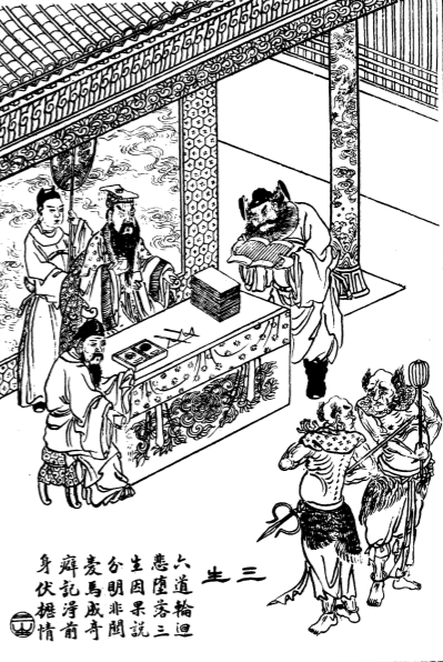 19th-century illustration of a scene from the short story "Three Lives" collected in Strange Tales from a Chinese Studio (1740).